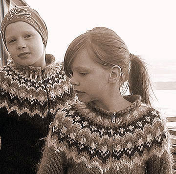 Lopapeysa - two Icelandic girls in Icelandic sweaters made of Icelandic wool in traditional pattern. Photo by Salvor Gissurardottir in Flatey, Breiðafirði in June 2006.